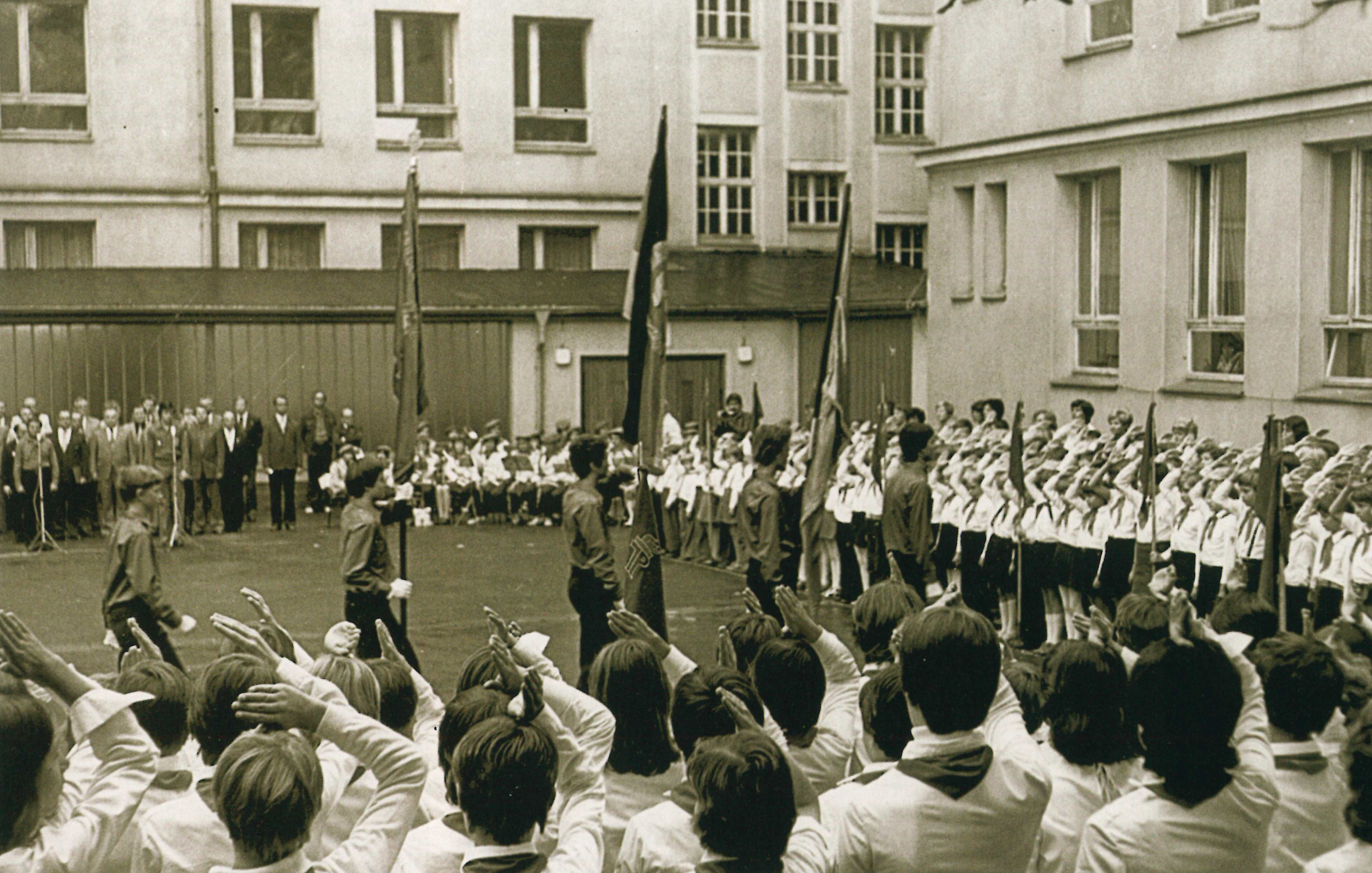 festive flag ceremony on the school yard at the former Bernsdorf school in 1979